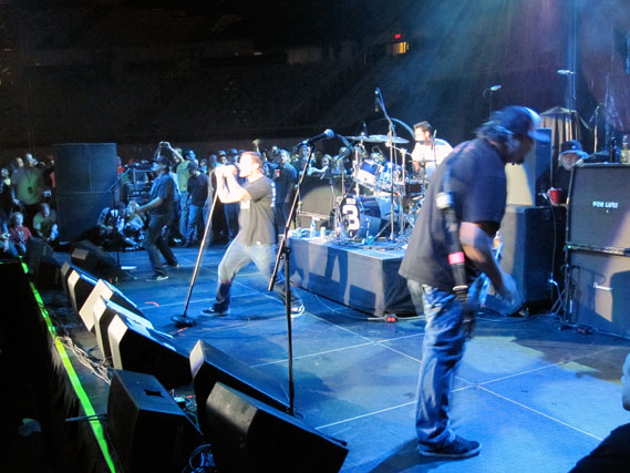 pennywise affliction christmas party